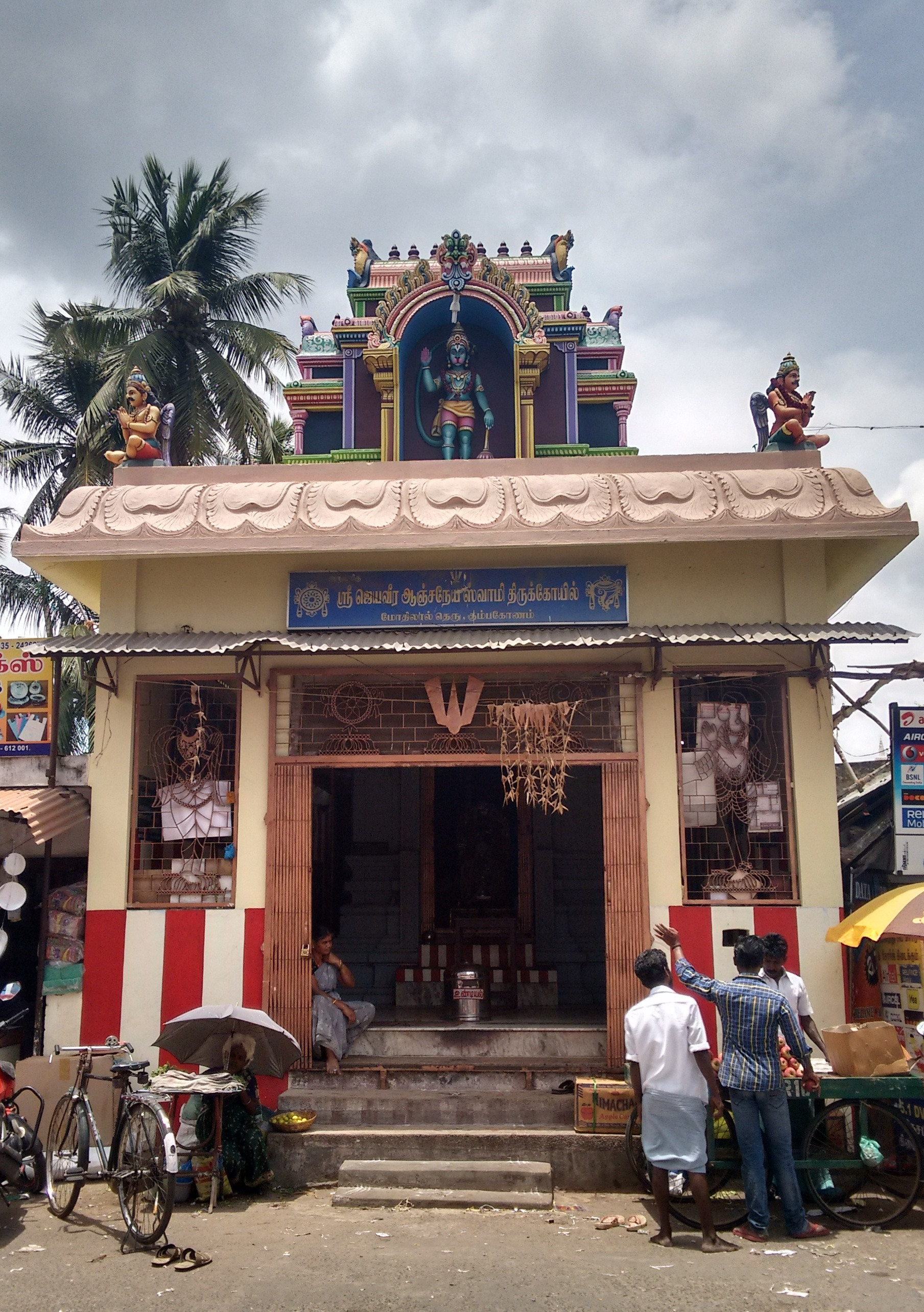 Motilal street anjaneyar மோதிலால் தெரு ஆஞ்சநேயர் கோயில்